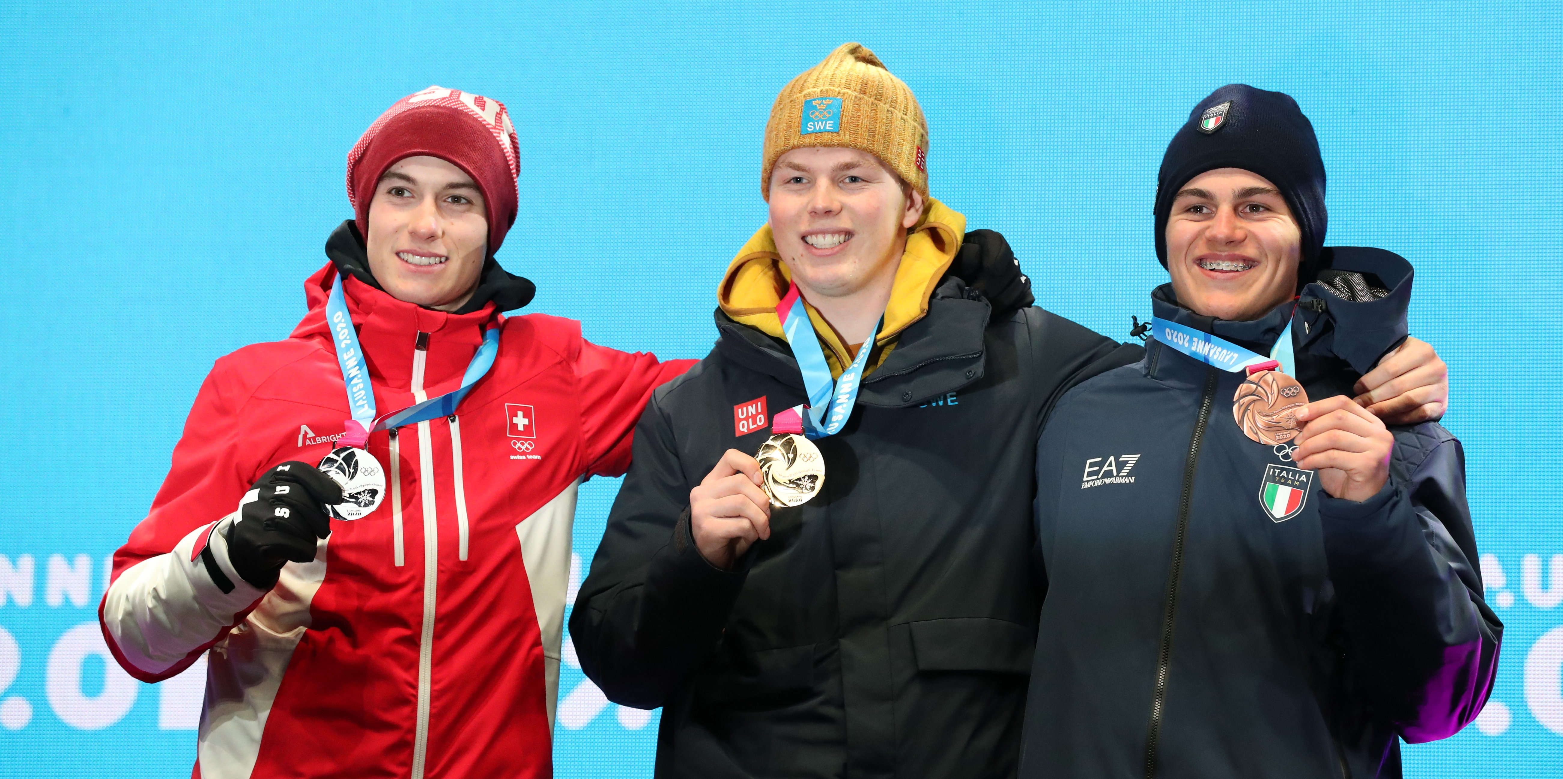 Medal Ceremony Day 6, 2020 Winter Youth Olympics in Lausanne